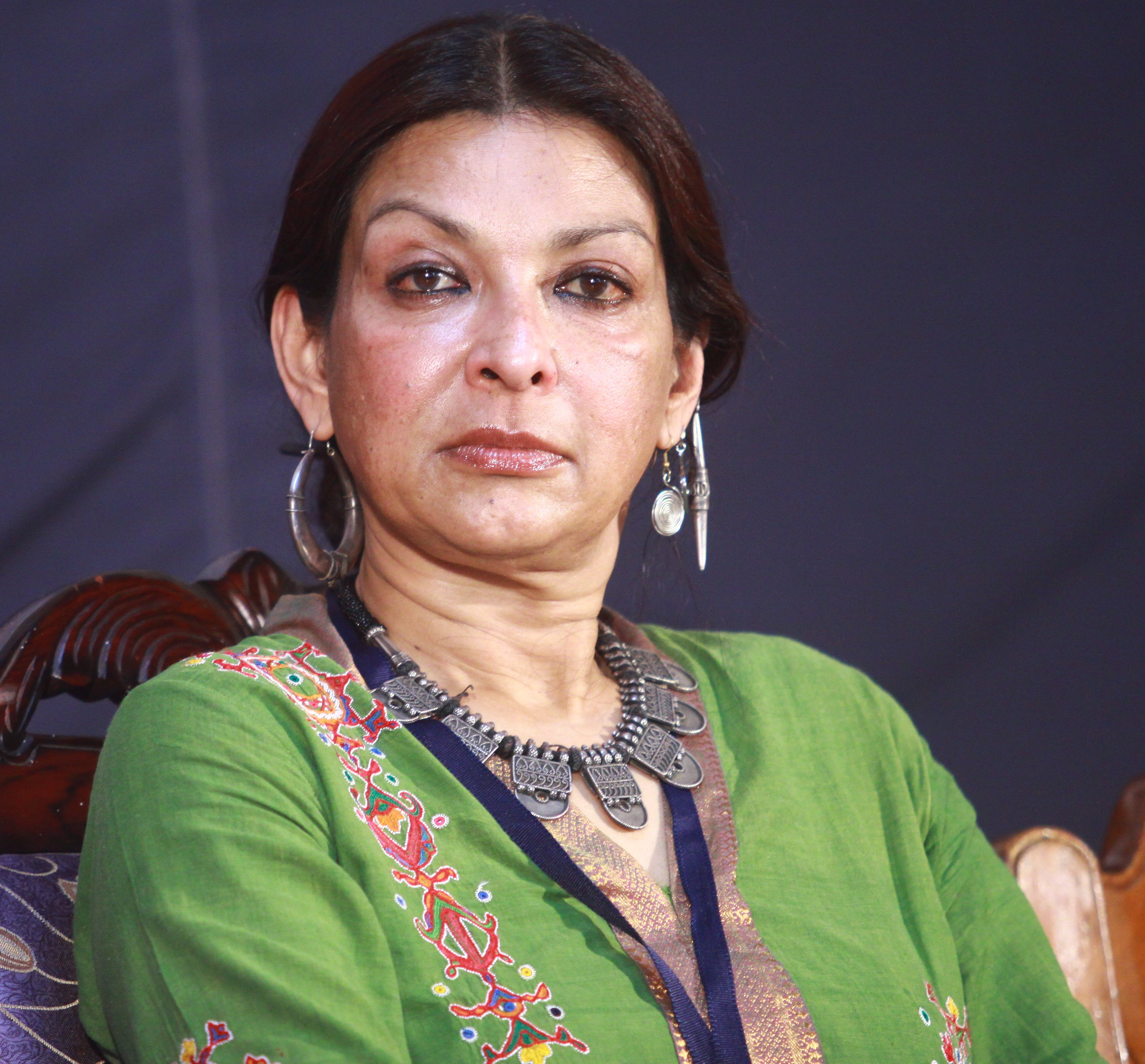 Mallika Sarabhay